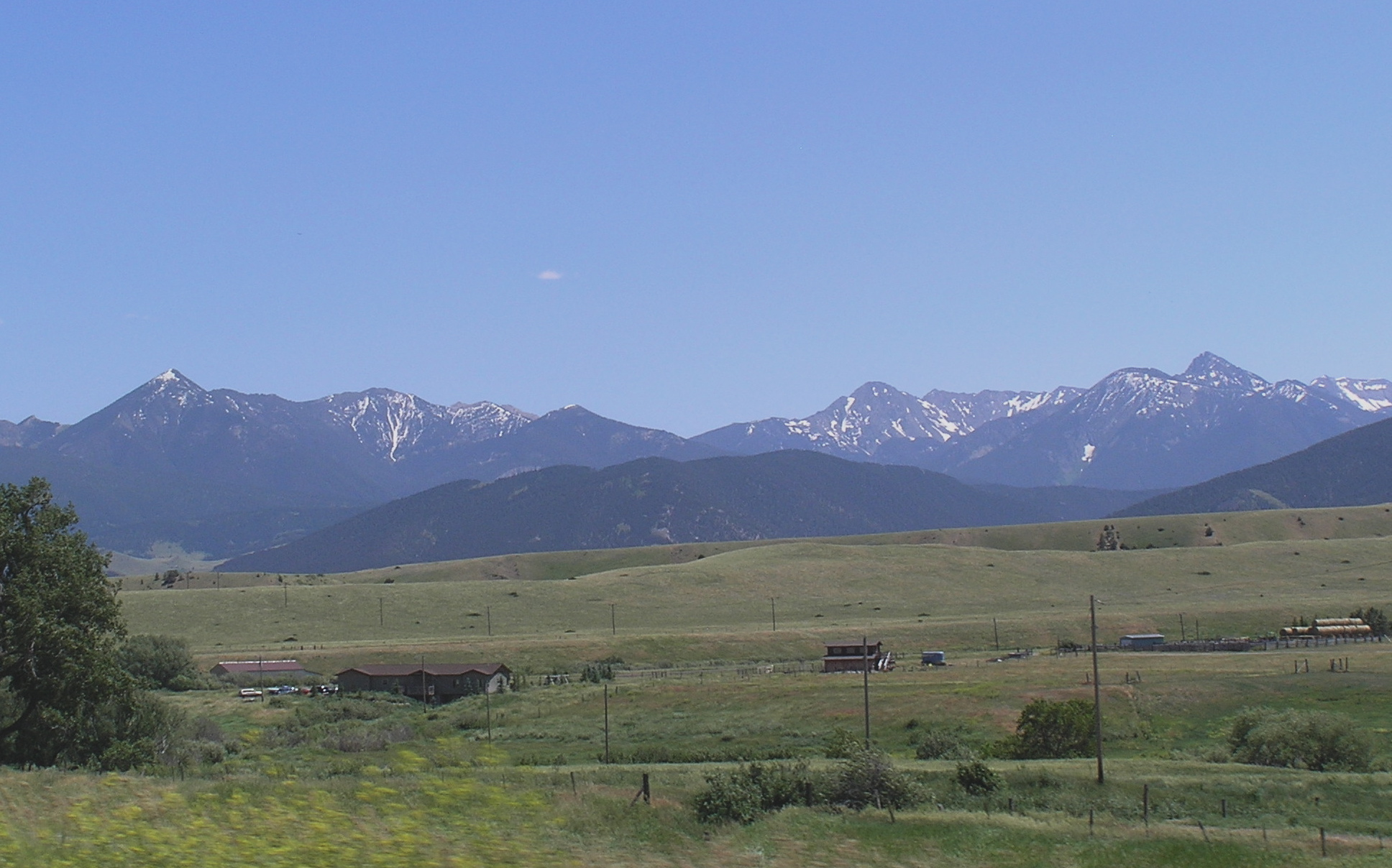 Absaroka range as seen from I-90 about 5-10 miles west of Livingston, MT